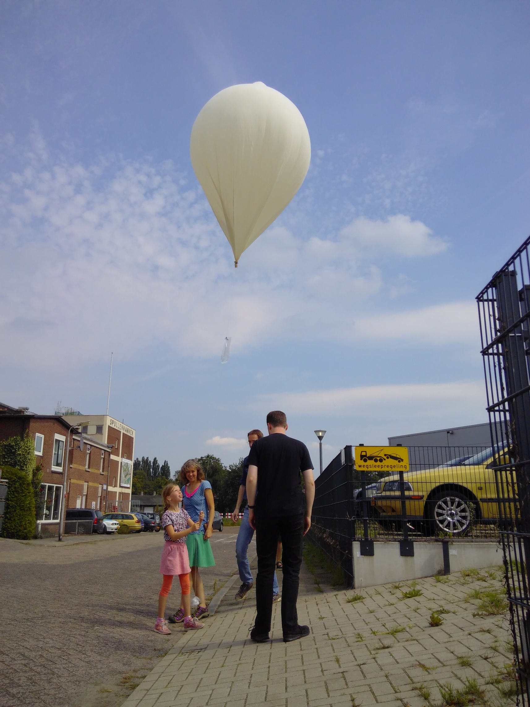 Releasing the weatherballoon in Amersfoort (NL)